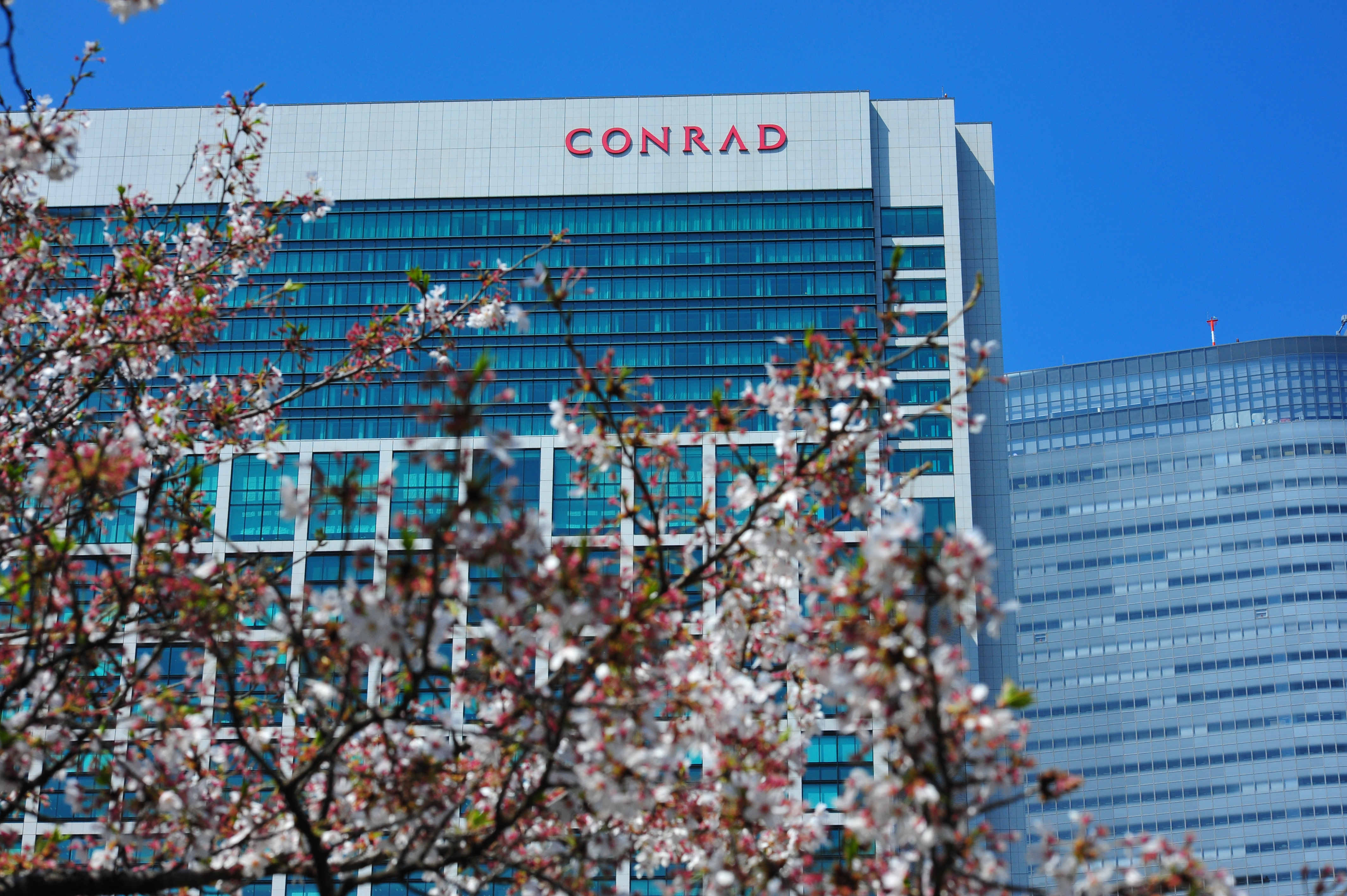 The Conrad Hotel at Shiodome, Tokyo with Sakura in bloom.